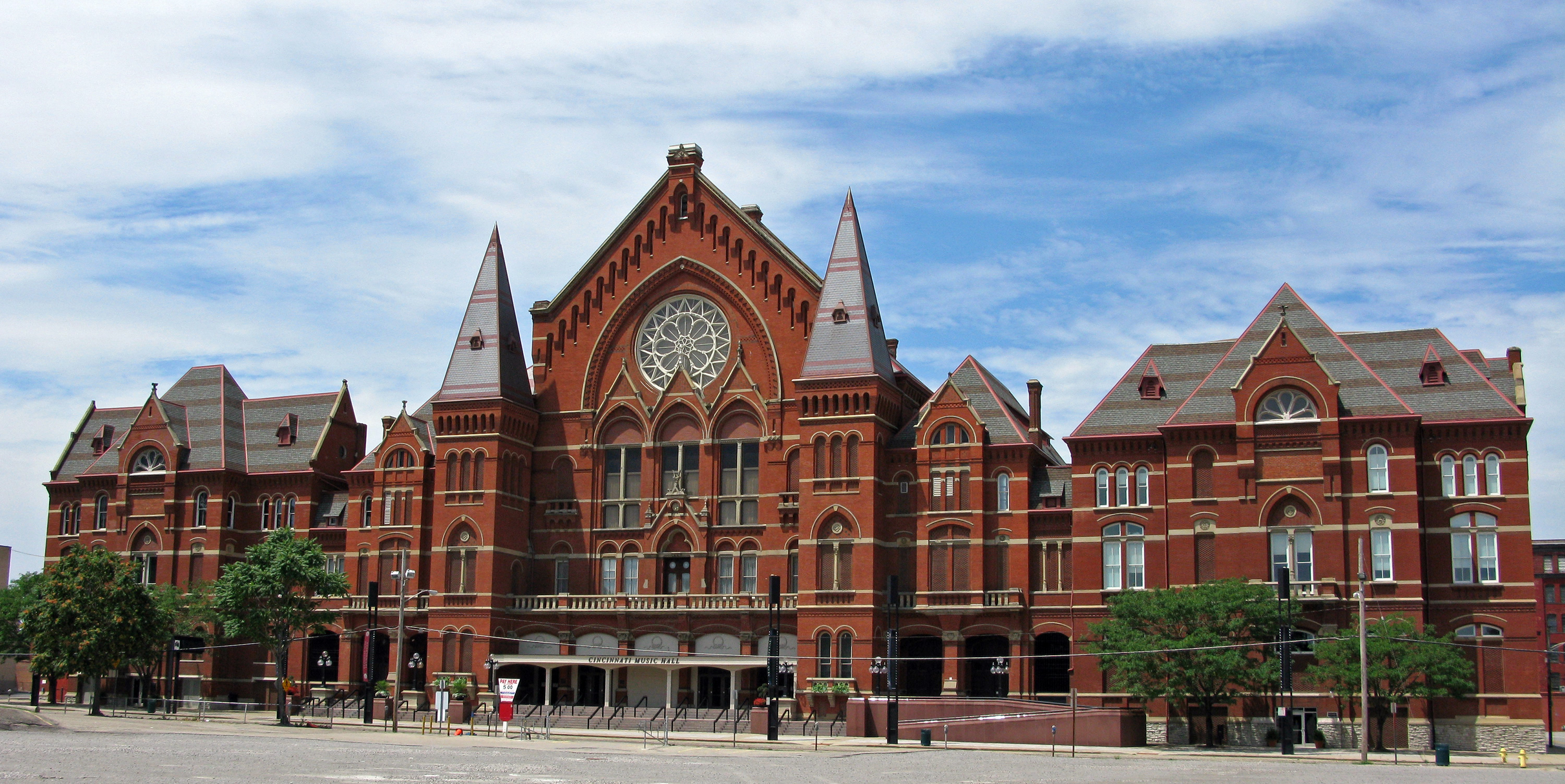 Music Hall (with Exposition Halls) in Cincinnati, Ohio.